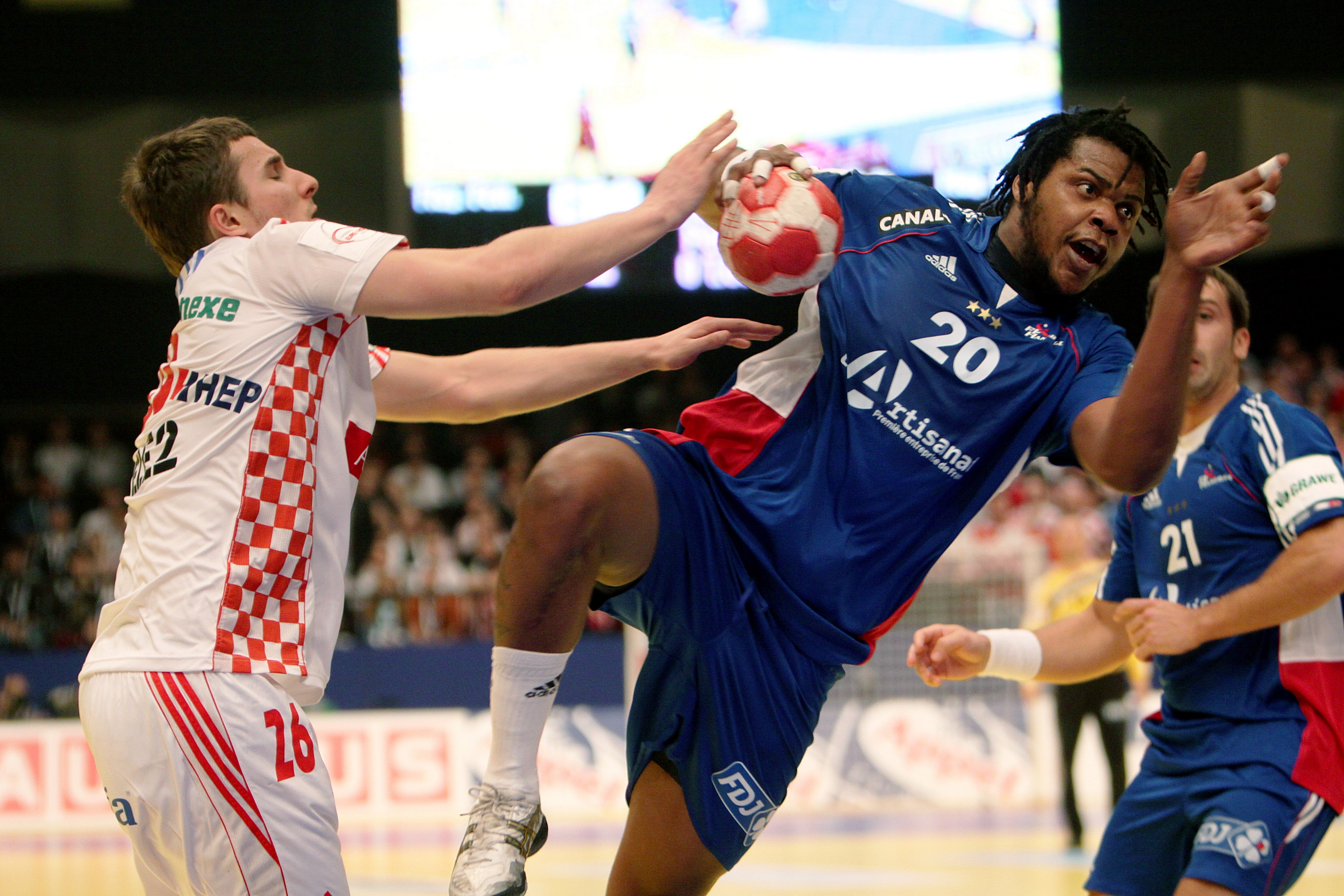 2010 European Men's Handball Championship Final place 1: Croatia vs France 21:25 — Manuel Štrlek (Croatia national handball team) tries to obstruct Cédric Sorhaindo (France national handball team) in the throw.